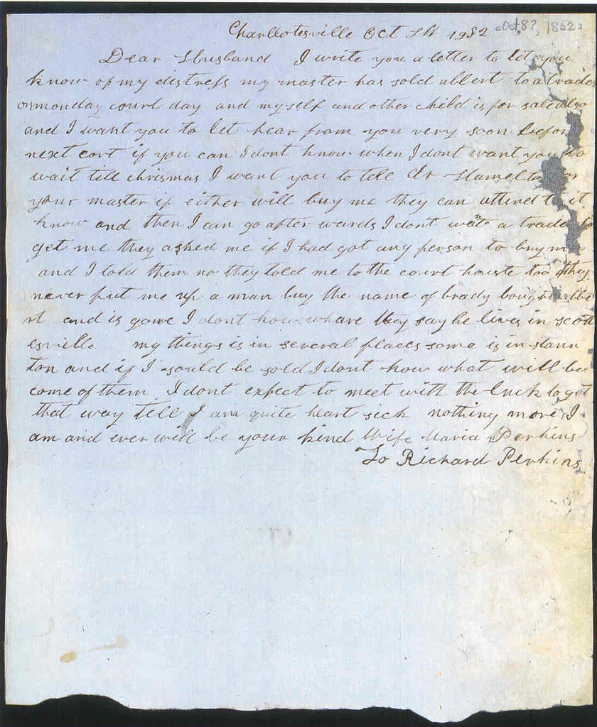 Letter by Maria Perkins written in Charlottesville, Virginia in 1852